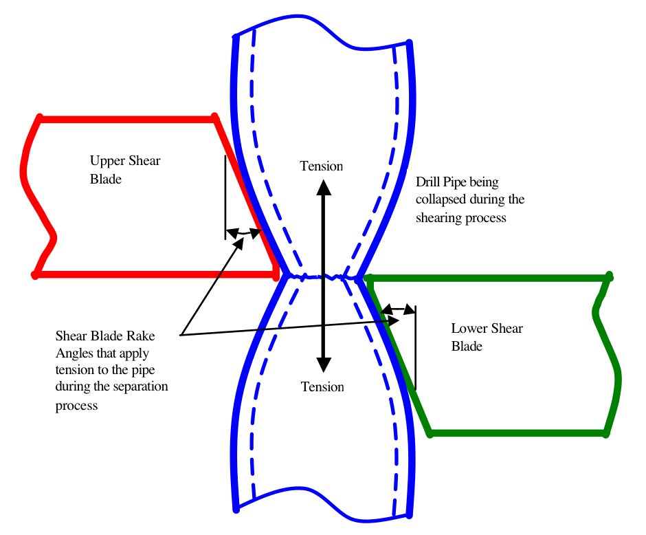 forces at work in an oil well shear ram blowout preventer Figure 2.1 in SHEAR RAM CAPABILITIES STUDY for U.S. Minerals Management Service, Requisition No. 3-4025-1001, September 2004.